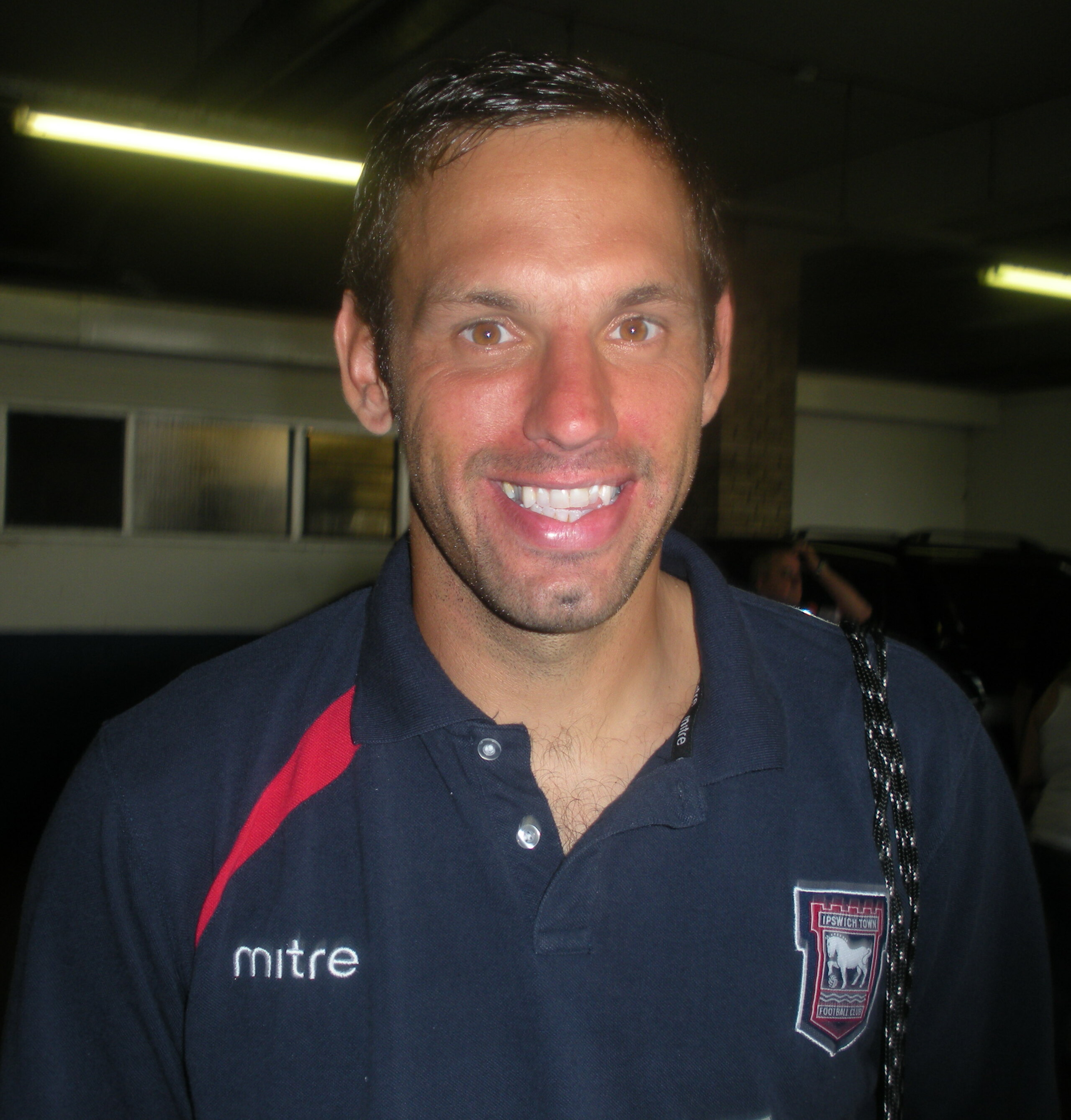 Richard Wright, Ipswich Town goalkeeper. Author also allows picture to be used by Simply-Blue